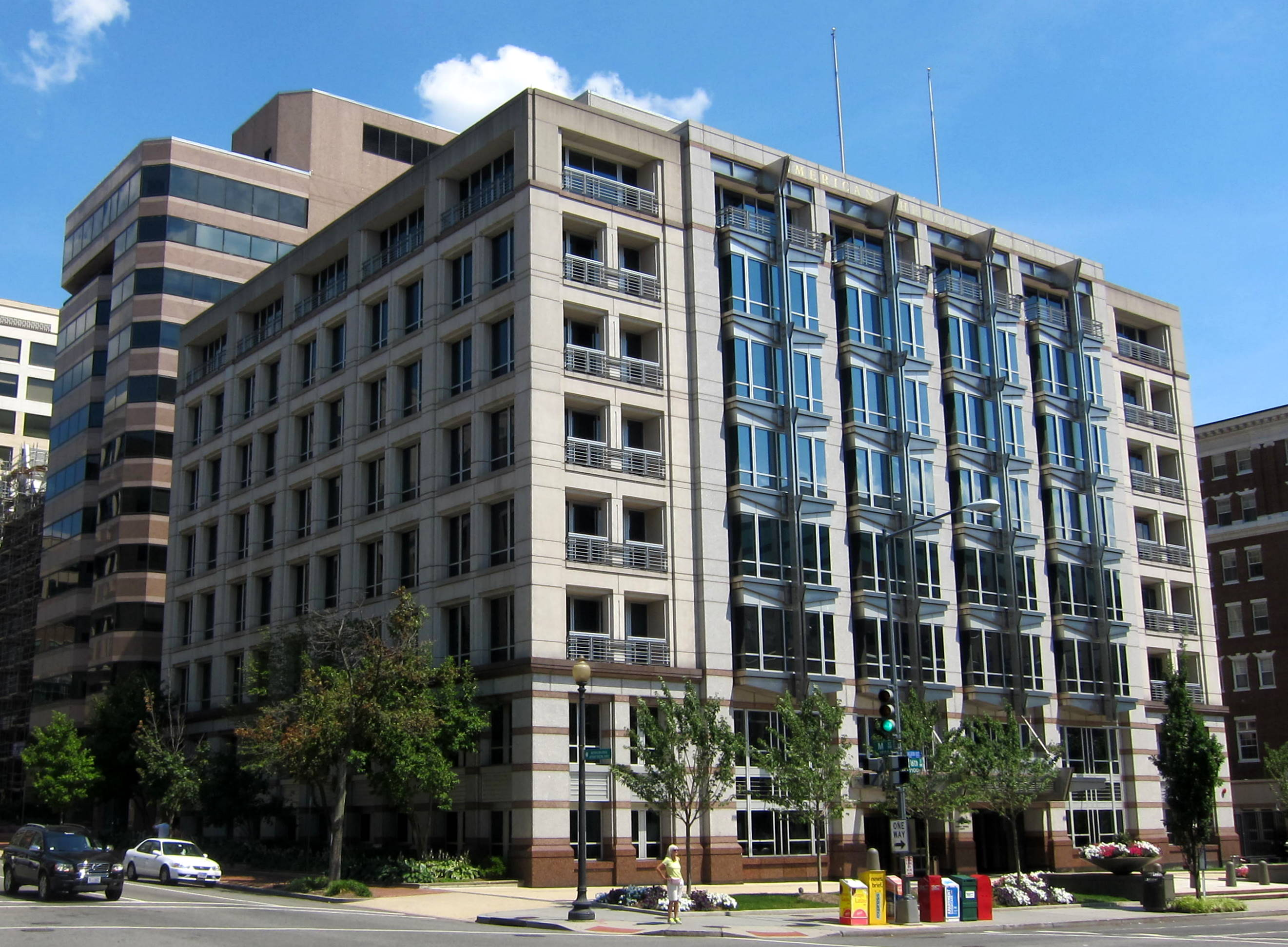 The American Chemical Society Building, also known as the Clifford and Kathryn Hach Building, located at 1155 16th Street, N.W., in downtown Washington, D.C. Built in 1959 (remodeled in 1995), the ten-story, postmodern high-rise was designed by architectural firm Structural Design Group, Ltd.